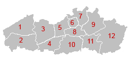 Division of scout groups (Gouw) in Flanders.